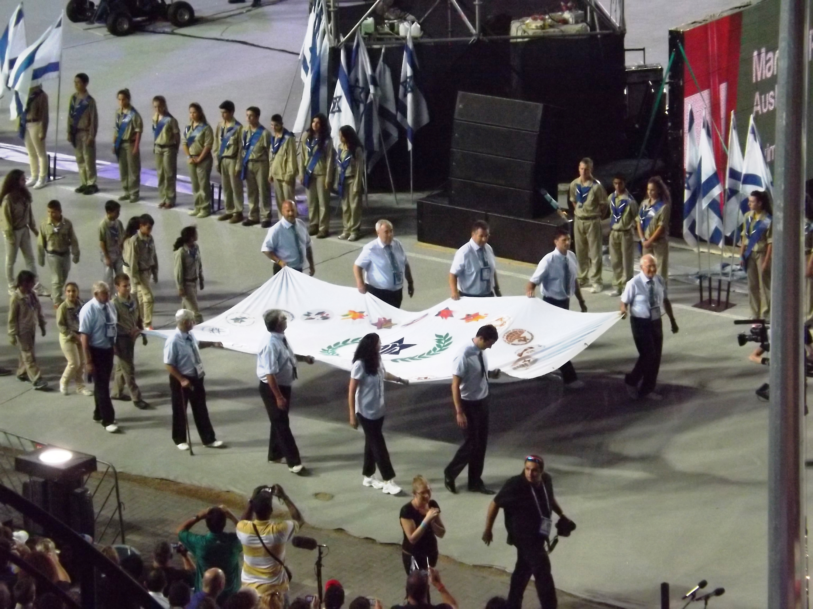 Flag of the Maccabiot. Olympic medalists, joined with the Maccabi youth movement, carrying the flag of the Maccabiot. On the flag are the badgets of Maccabi (center) along with the budges of the 19 Maccabiot.